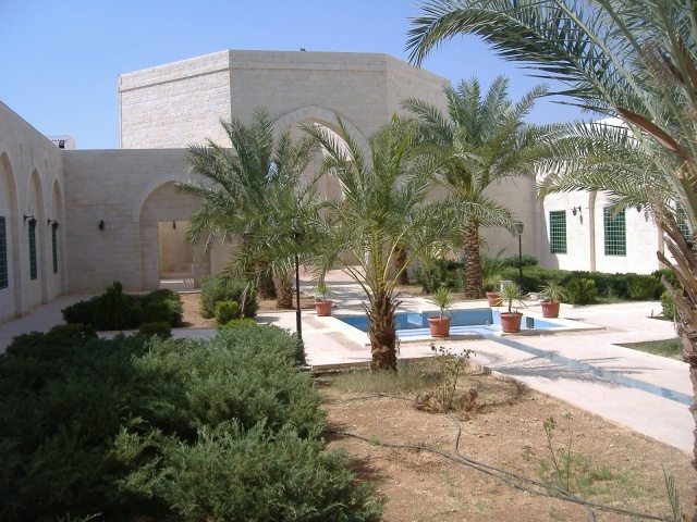 On the way to Pella, in the Jordan Valley. A relatively new mosque housing the tomb of Abu Ubaidah ibn al-Jarrah.